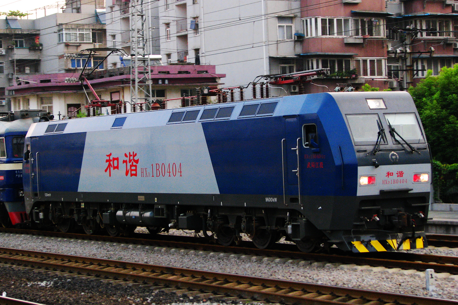 China Railways HXD1B 0404 electric locomotive